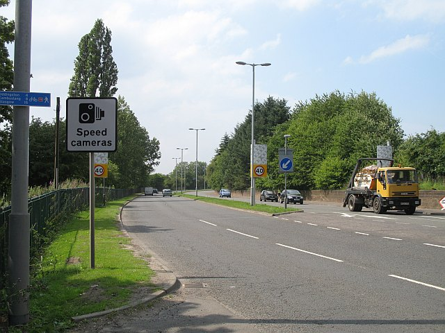 A 89 leaving Coatbridge A dual carriageway section of one of the Glasgow - Edinburgh roads.